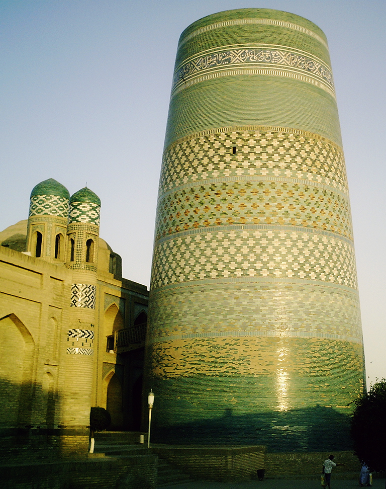 Unfinished Kalta Minor minarett in Khiva, Uzbekistan.